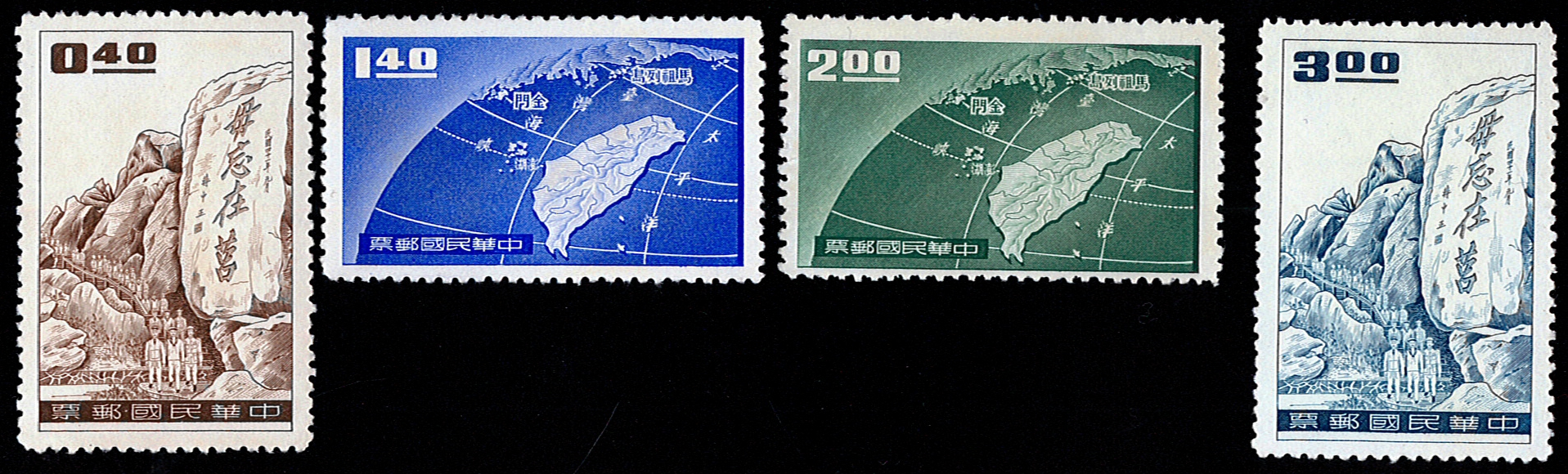 The set of the postage stamps "Protect the Kinmen and Matsu Postage Stamps", issued on 3rd, September, 1959 in the Republic of China.